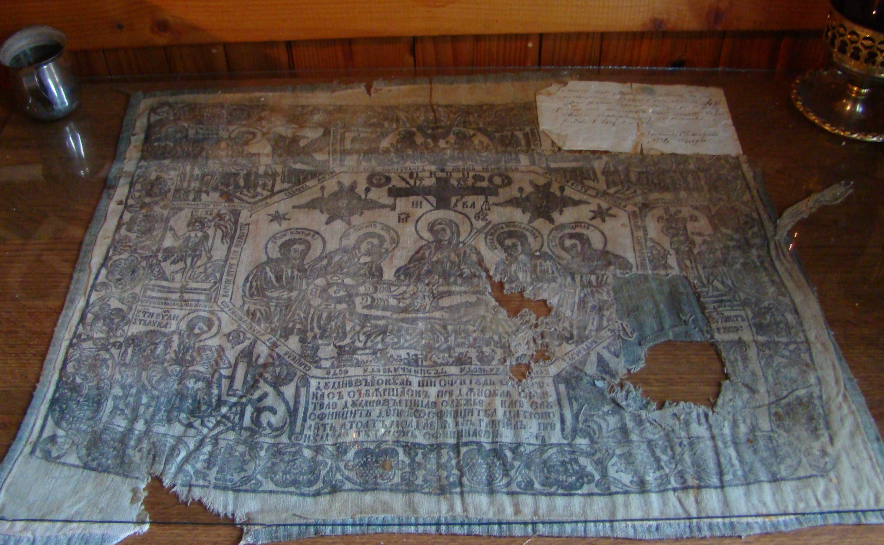 Wooden church in Muntele Băișorii, Cluj County, Romania